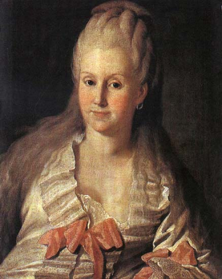 Portrait of Anna Andreyevna Muravyova